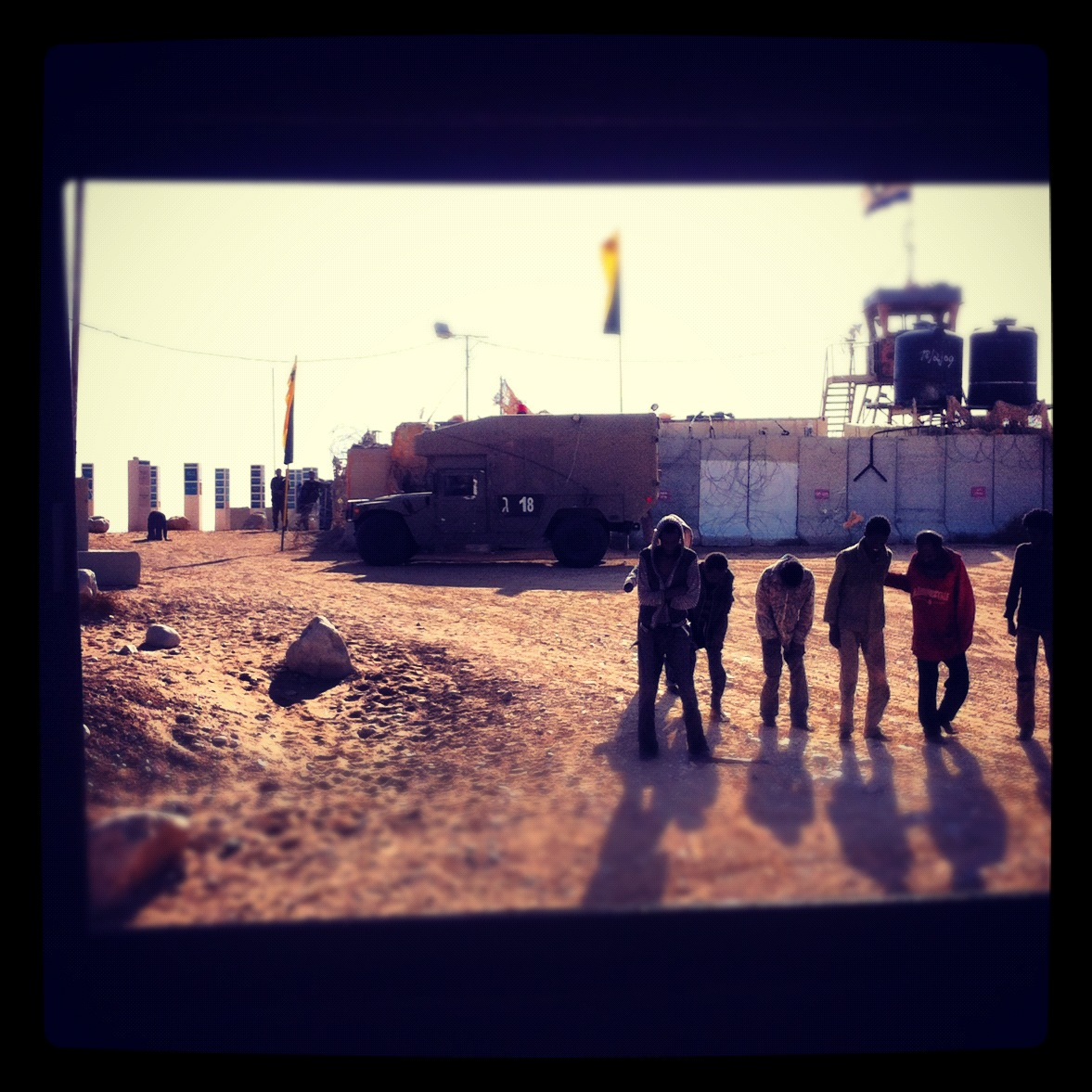 African refugees next to the Egyptian-Israeli border